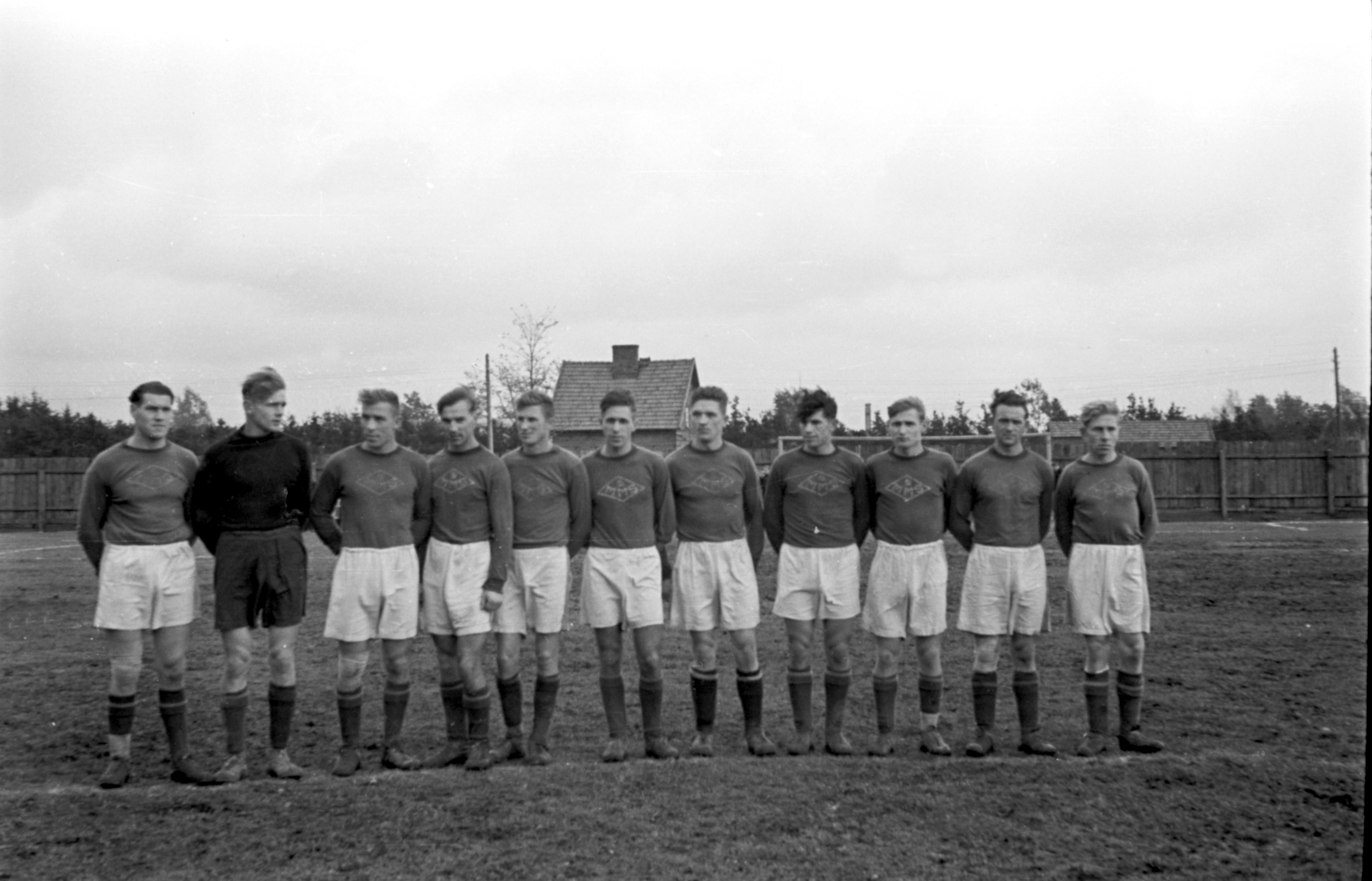 Football team Kretinga MMS 1958, LithuaniaLietuvių: Kretingos MMS futbolo komanda 1958 m., Lietuva